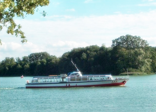 Pleasure craft on the lake